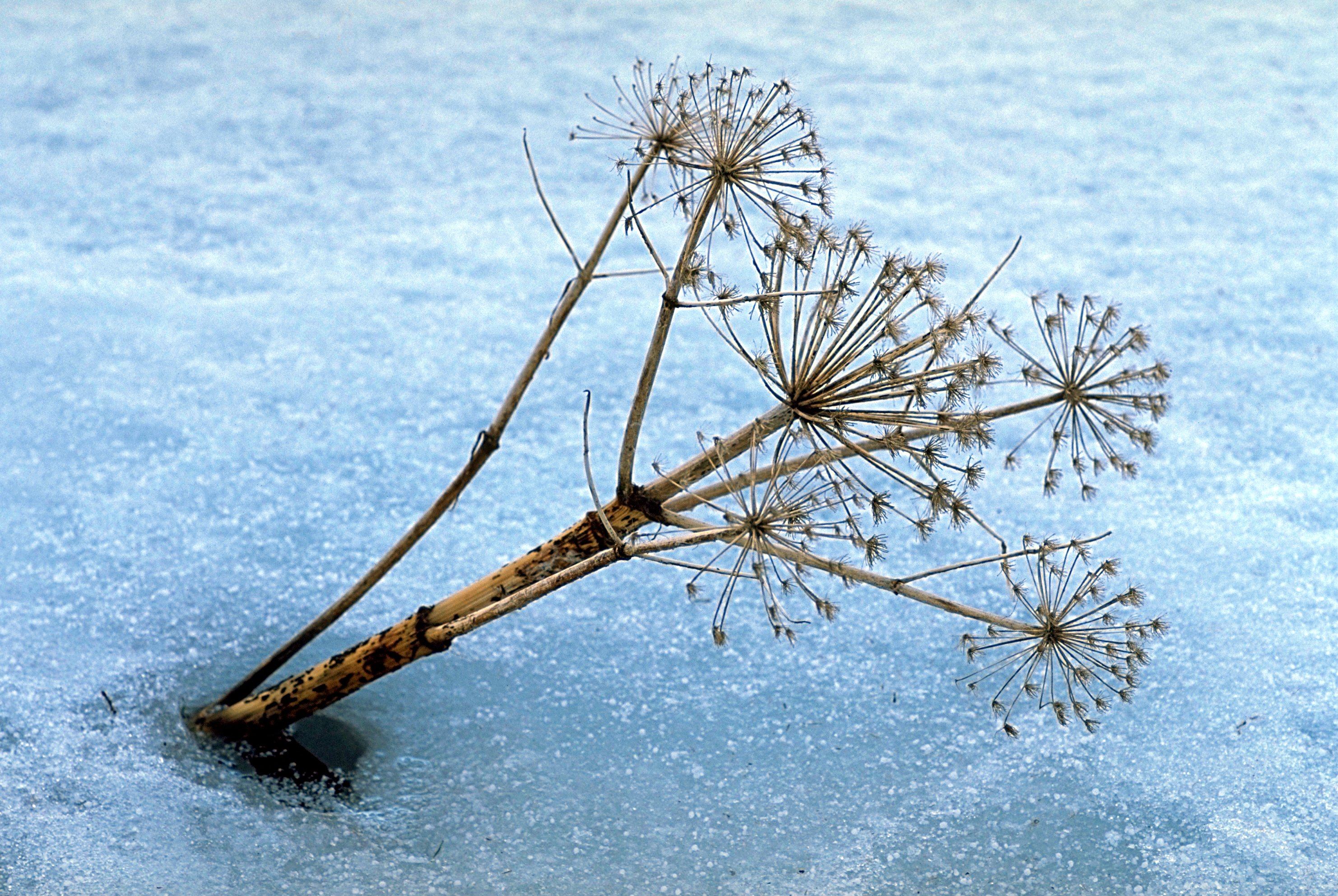 Angelica Archangelica in Þórsmörk in Winter, Iceland Photo was taken using the following technique: Film: Fuji Velvia Lens: 2.8/100 Macro Filter: Body: Minolta Dynax 7 Support: Manfrotto 190B Image with Information in English Bild mit Informationen auf Deutsch